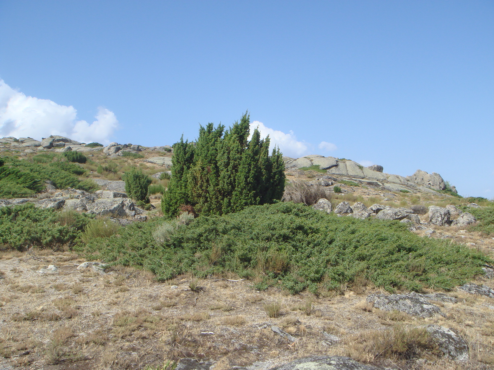 Juniperus communis subsp. hemisphaerica and Juniperus communis subsp. alpina, at Paramera de Ávila mountains, Spain, Ávila province.